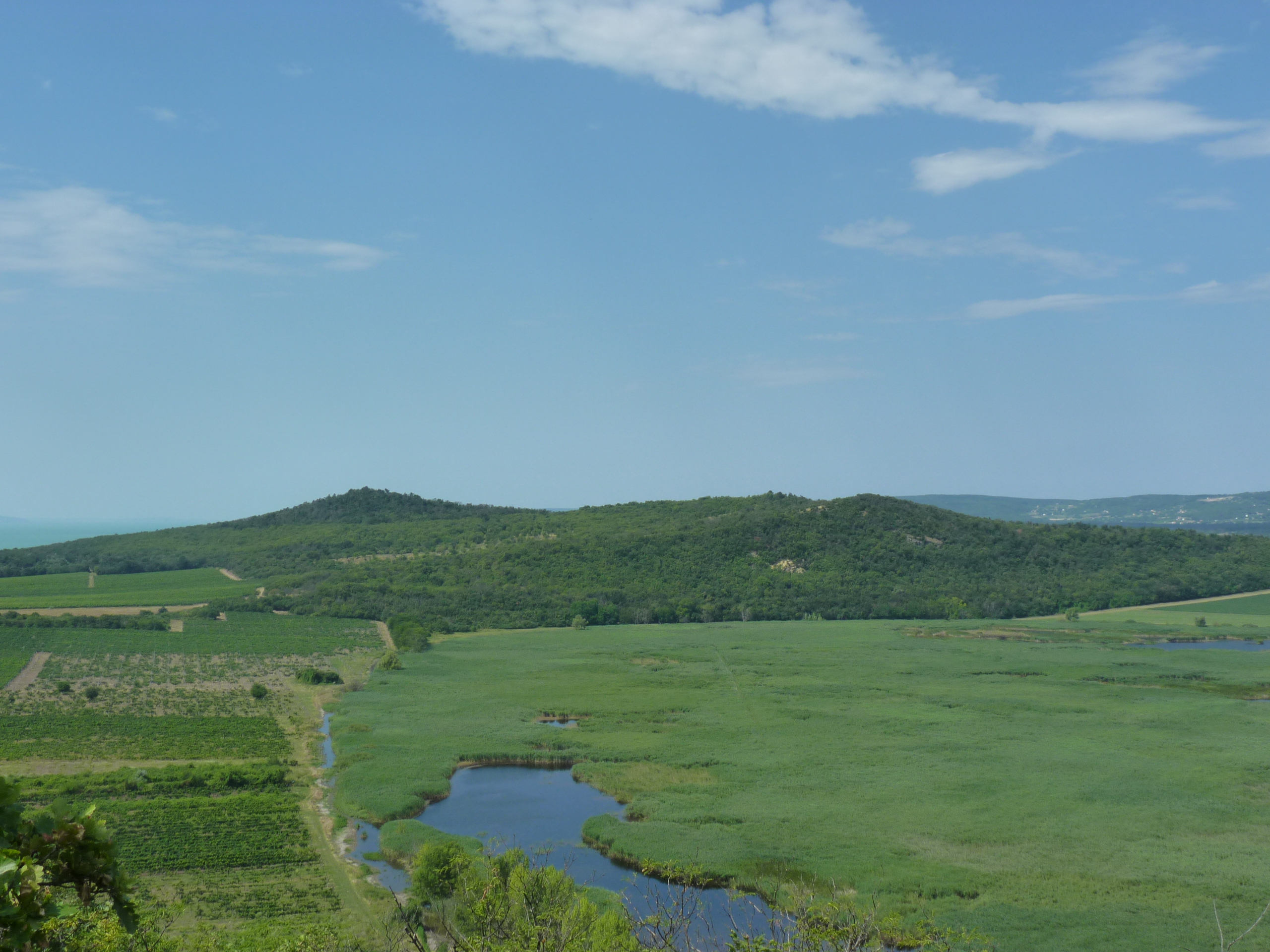 View of Külső-tó, Nyereg-hegy and Csúcs-hegy from Kis-erdő-tető